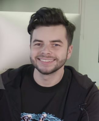 Matthew "Nadeshot" Haag in 2019